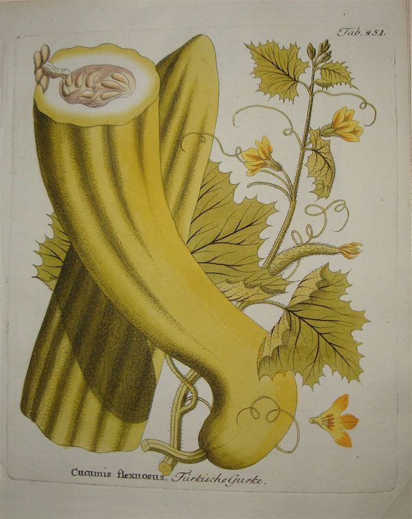 Armenian cucumber, Cucumis melo var. flexuosus, Cucumis flexuosus from Icones Plantarum Medico-Oeconomico-Technologicarum (1800-1822)